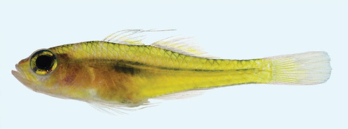 Trimma gigantum female 27.7 mm Uchelbeluu Reef, Palau